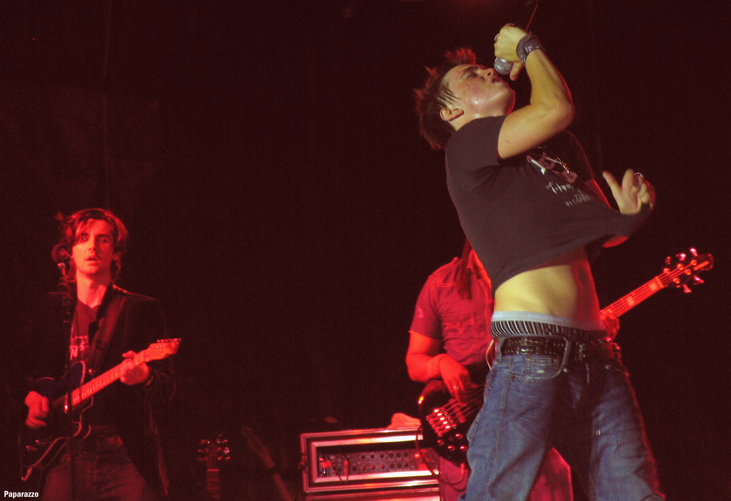 Paparazzo presents a photo from Jesse McCartney's concert on August 5, 2006 in Baton Rouge, Louisiana.